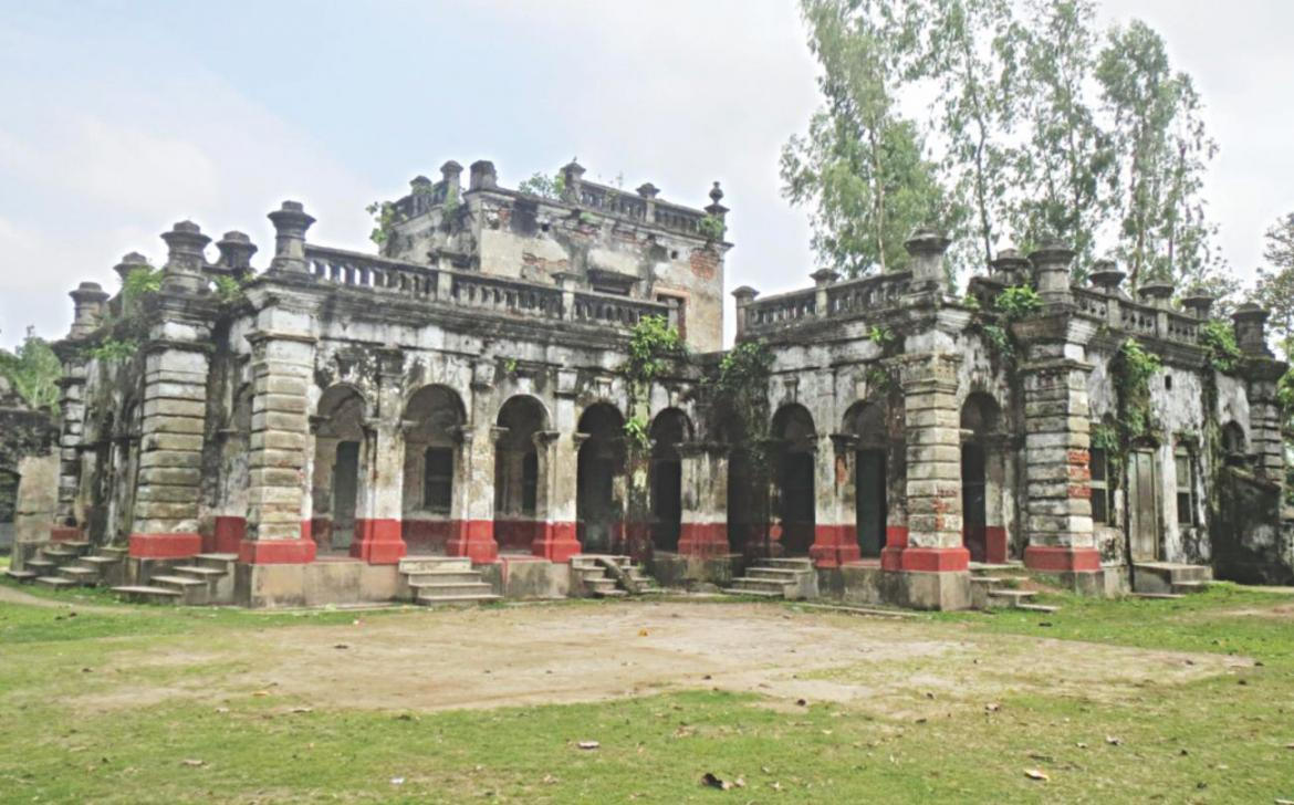 This is the photo of the ruins of the residence of prominent Munshibari family of Ulipur, Kurigram, Bangladesh.